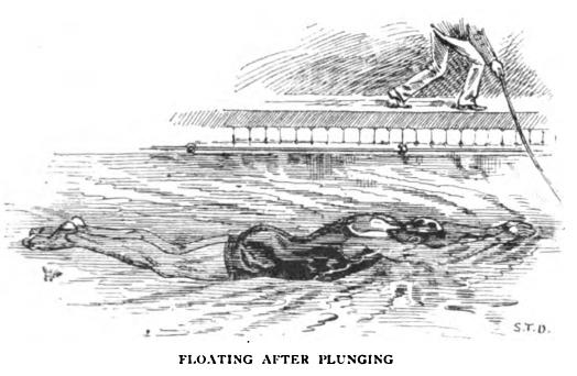 Picture of a swimmer floating during a plunge (the plunge for distance was a competitive swimming event in the 19th and early 20th century